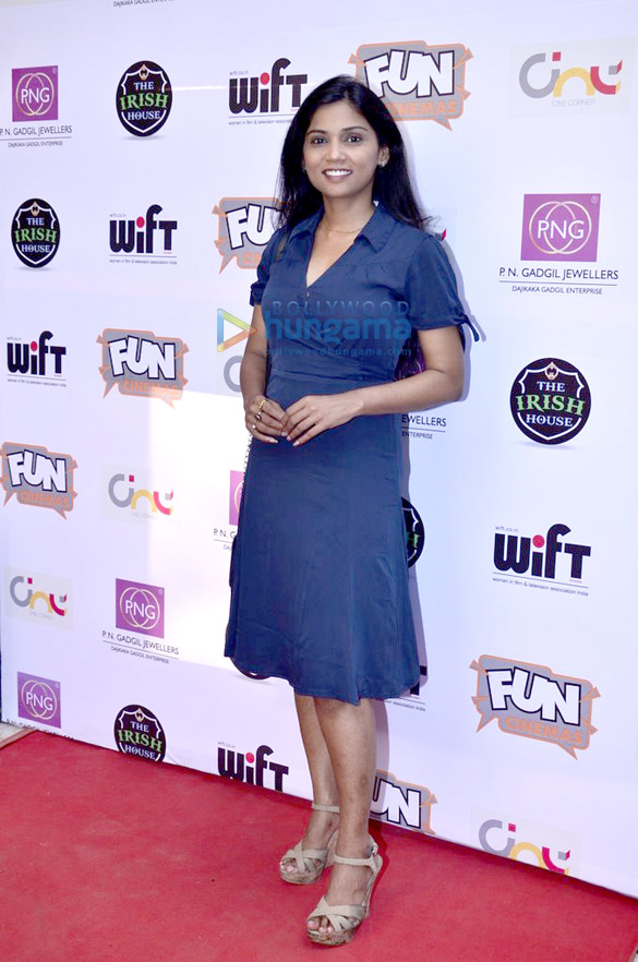 Usha Jadhav at the premiere of The World Before Her